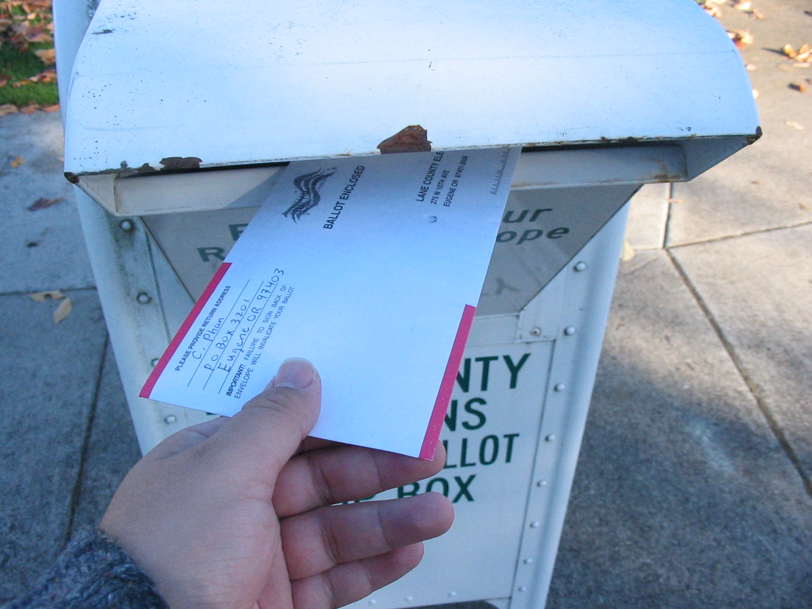 A voter returns his vote-by-mail ballot in the 2006 General elections in Lane County, Oregon.